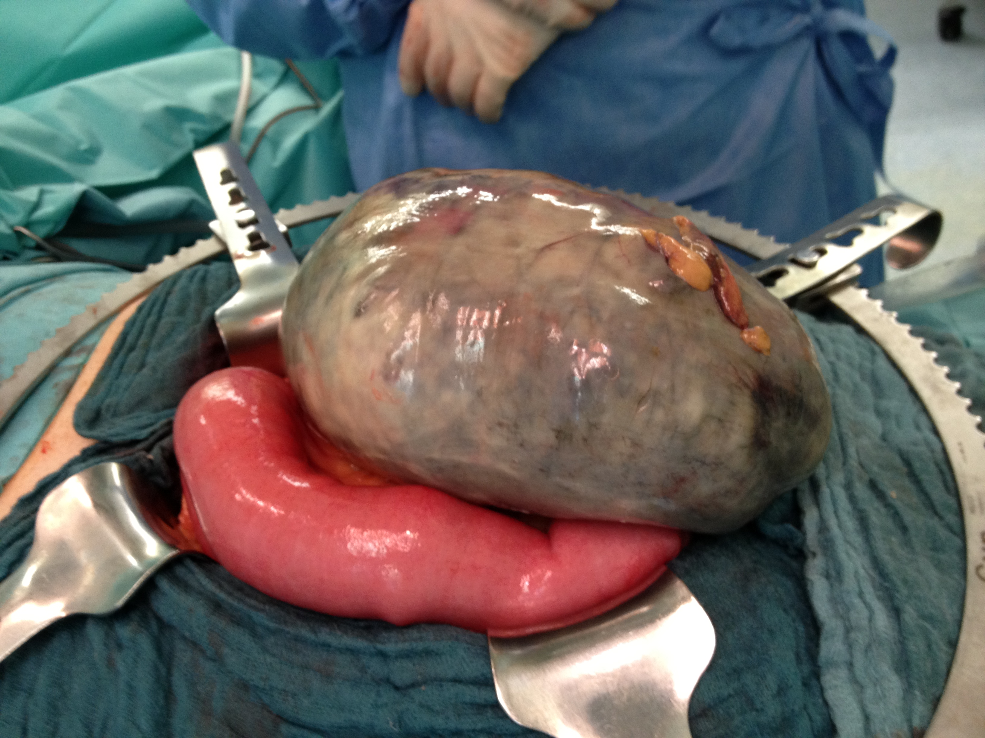 Volvulus